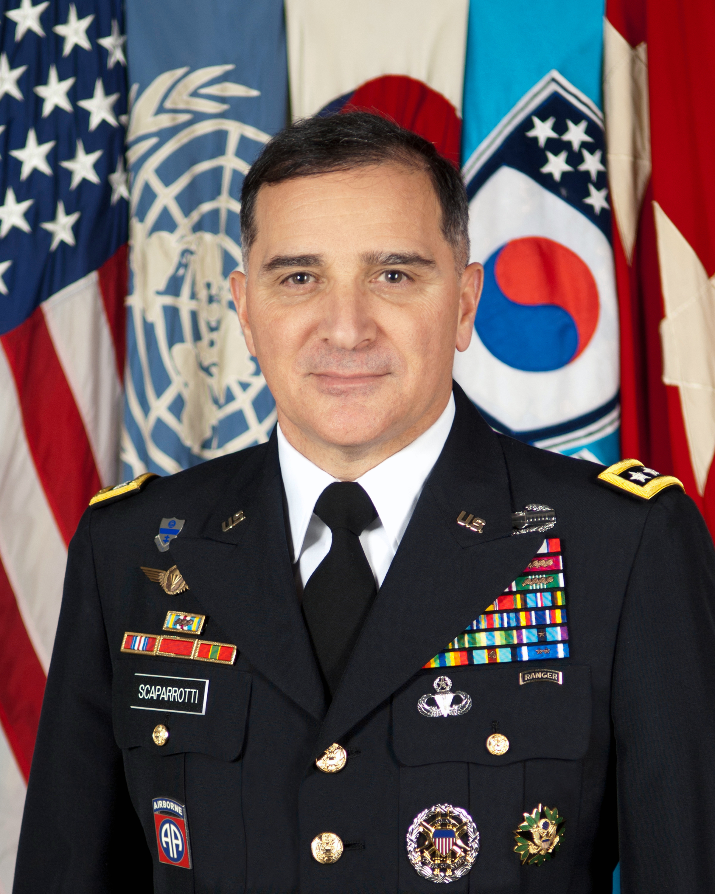 Commander, United Nations Command